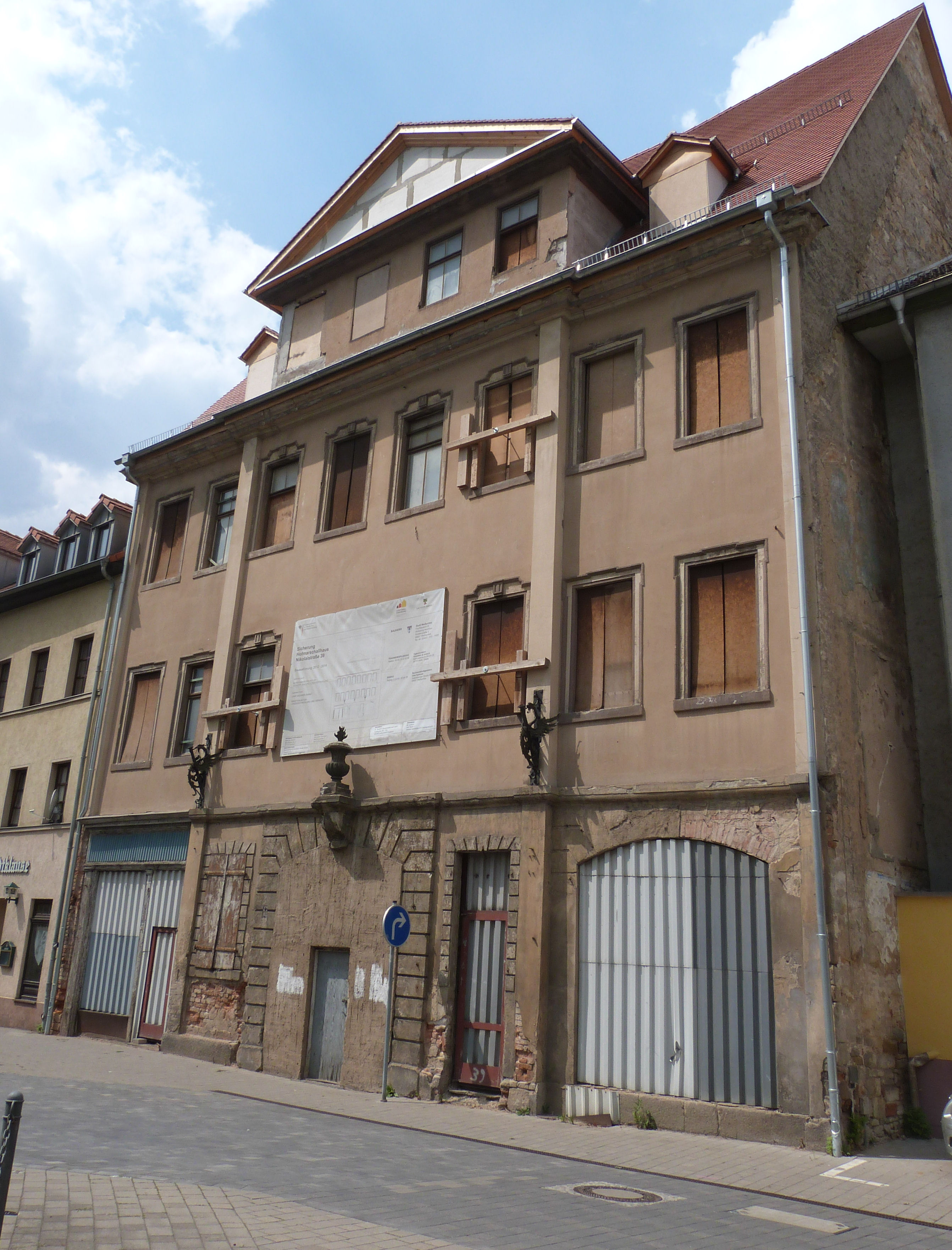 House No. 39 Nikolaistrasse, Hofmarschallhaus, Weißenfels, Saxony-Anhalt